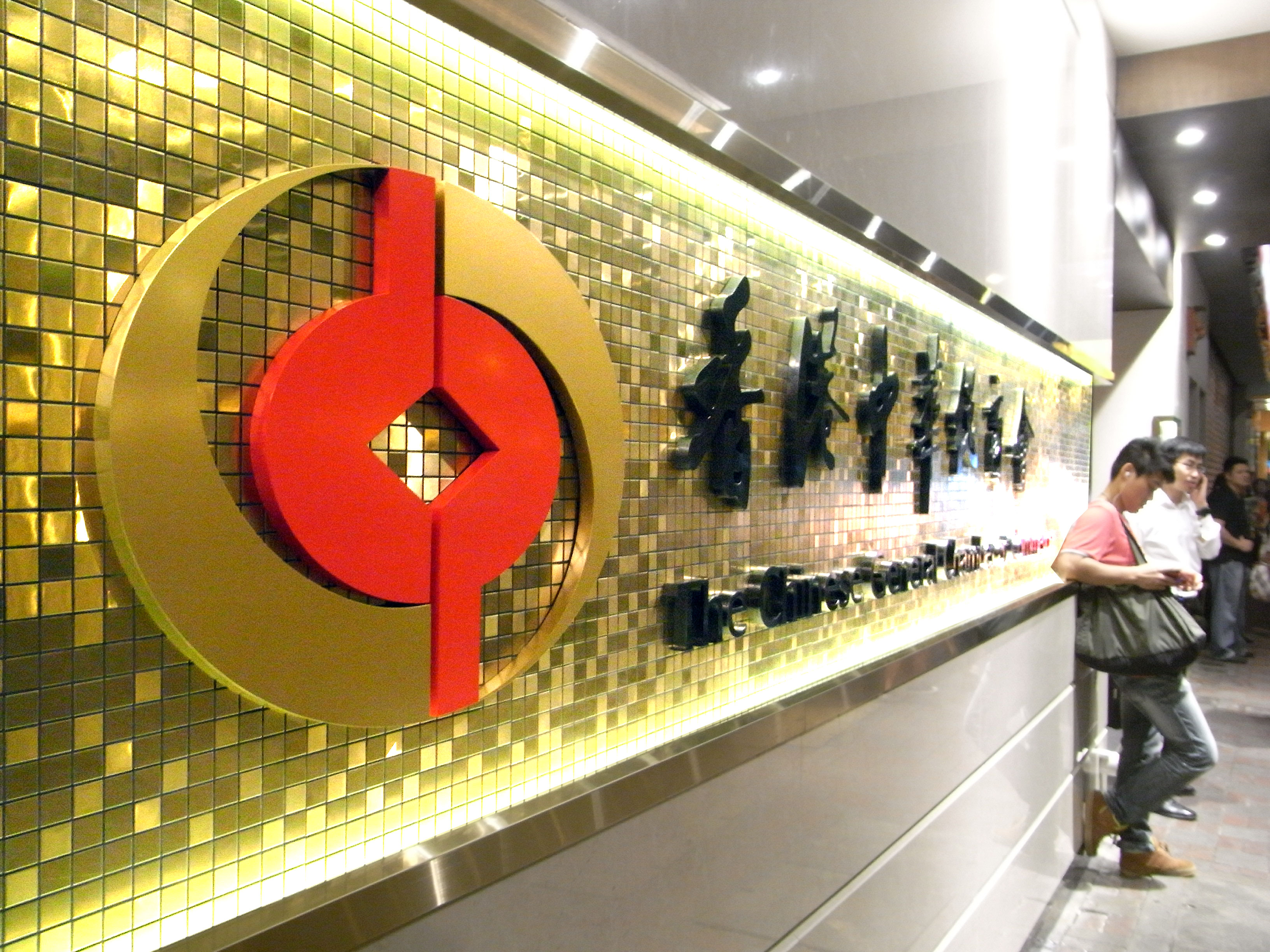 中環 香港中華總商會 晚上